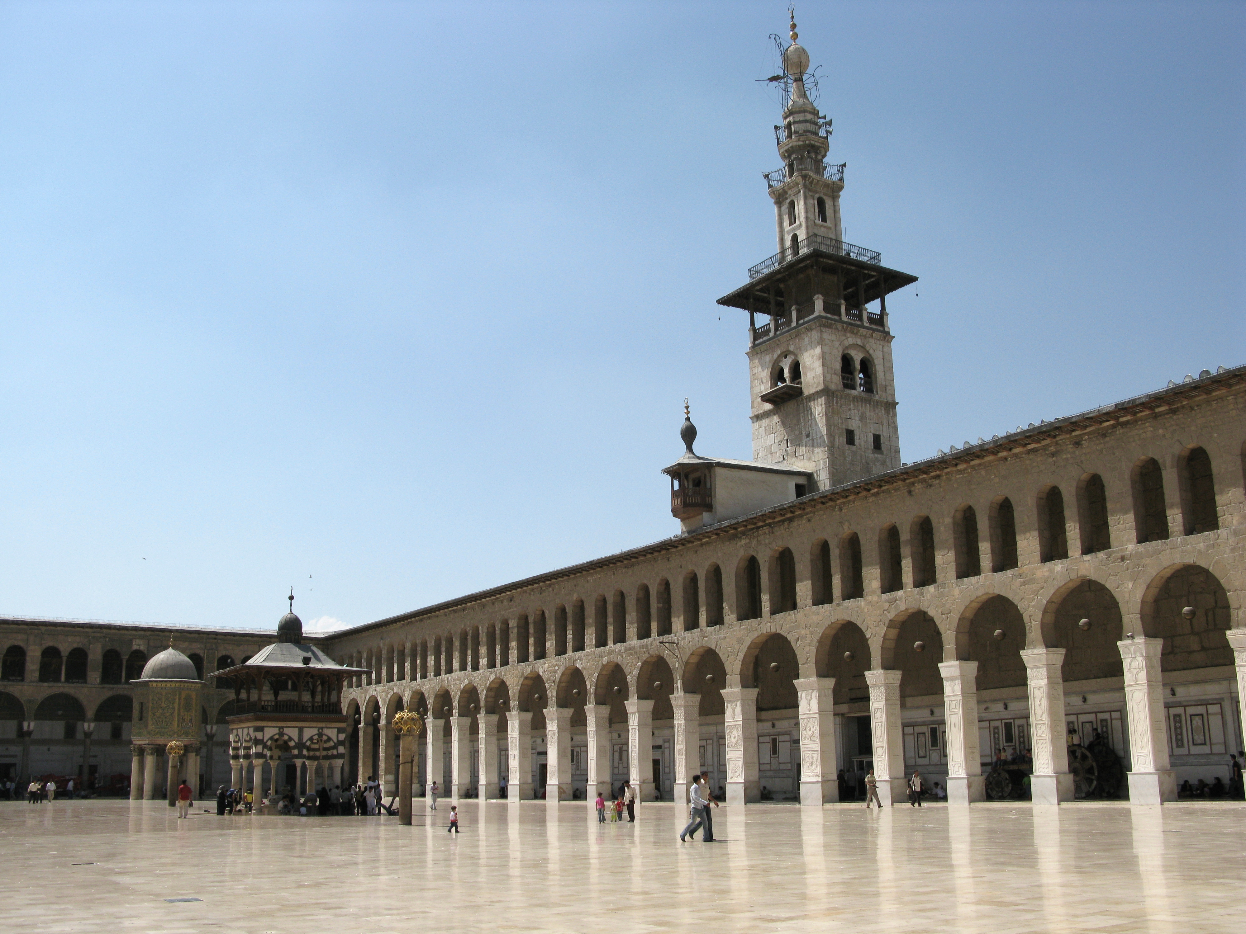 Damascus, Syria: The courtyard of the 8th-century Umayyad Mosque. The Umayyad Mosque, located in the old city of Damascus, is one of the largest and oldest mosques in the world. It is considered by some Muslims to be the fourth-holiest place in Islam.